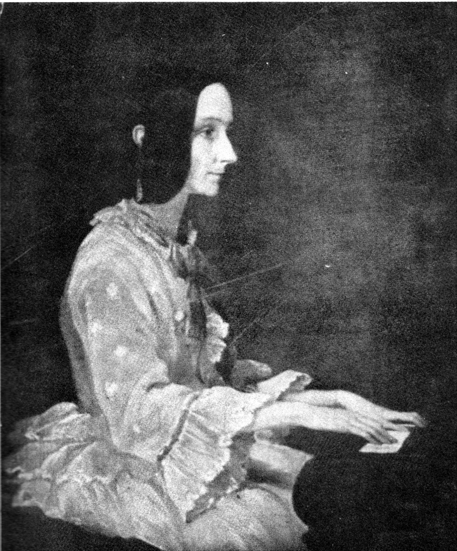 Painting of Ada Lovelace at a piano in 1852 by Henry Phillips. While she was in great pain at the time, she sat for the painting as Phillips' father, Thomas Phillips, had painted Ada's father, Lord Byron.